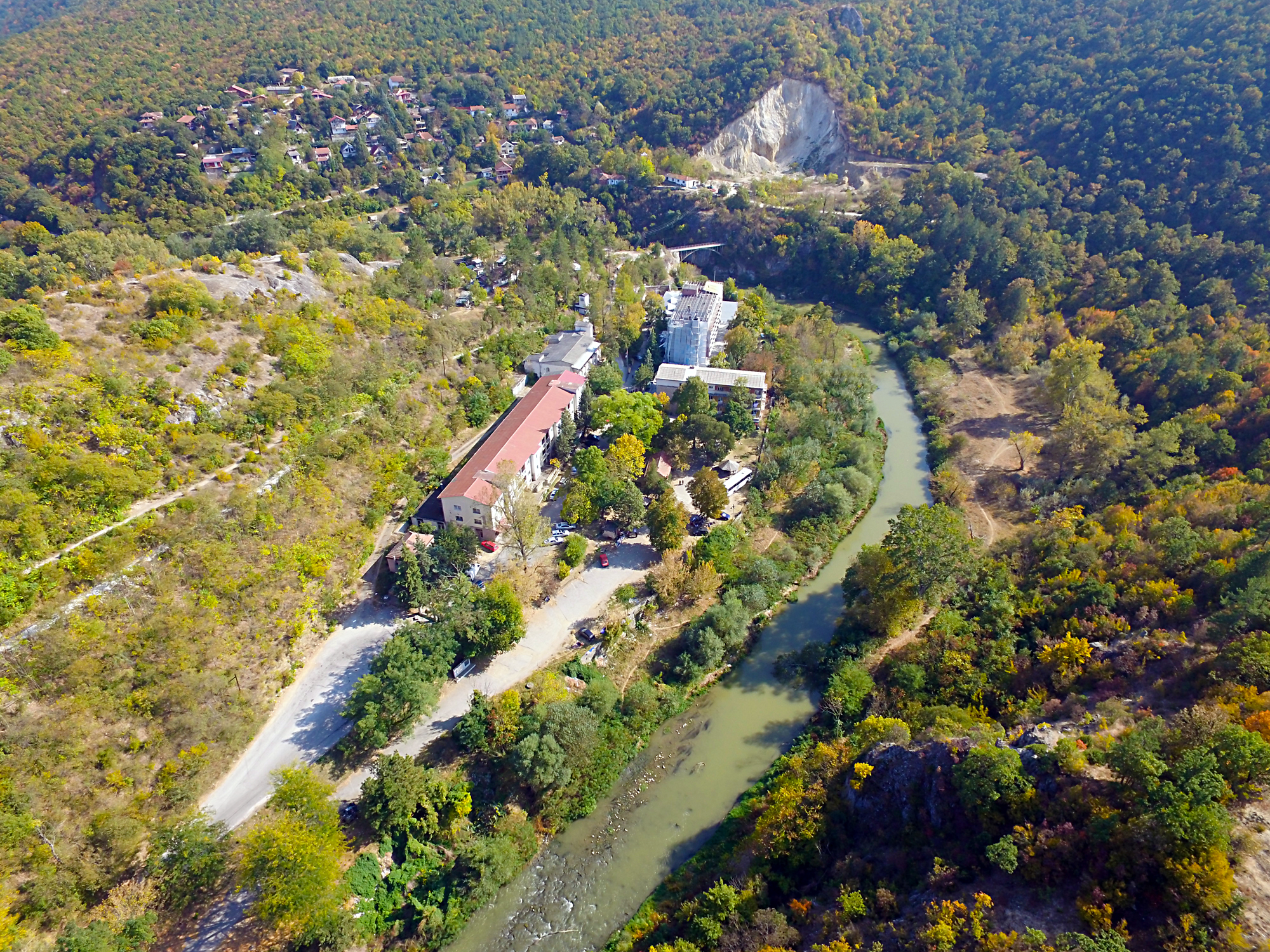 Katlanovo thermal bath